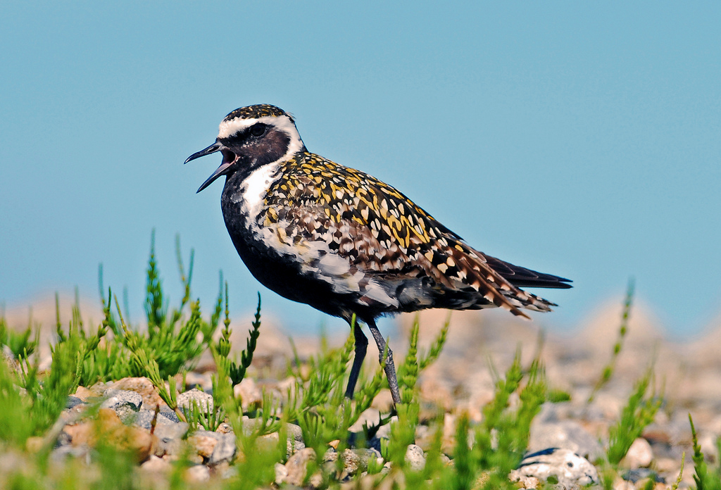 A Pacific Golden Plover at Bering Land Bridge National Preserve, Alaska, USA.